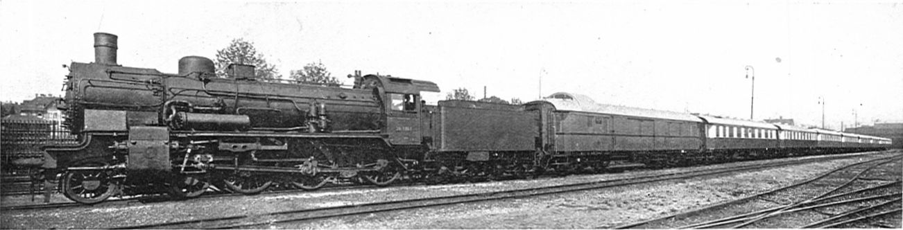 The "Rheingold" Saloon Car Express, German State Rlys. Photo: German State Rys.